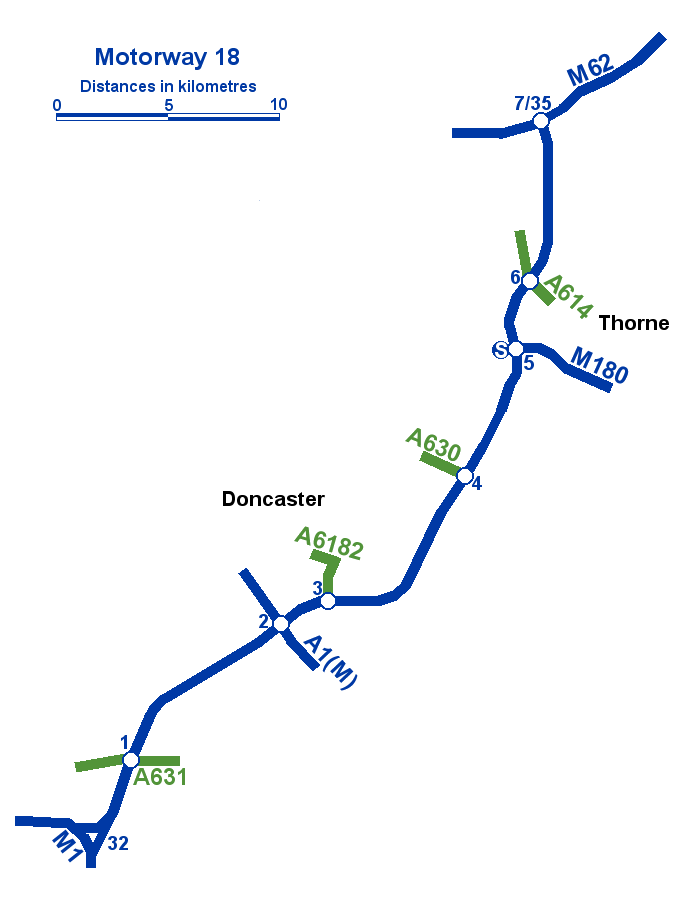 Author: Gregory Deryckère Source: Own work Date: 18th September 2006